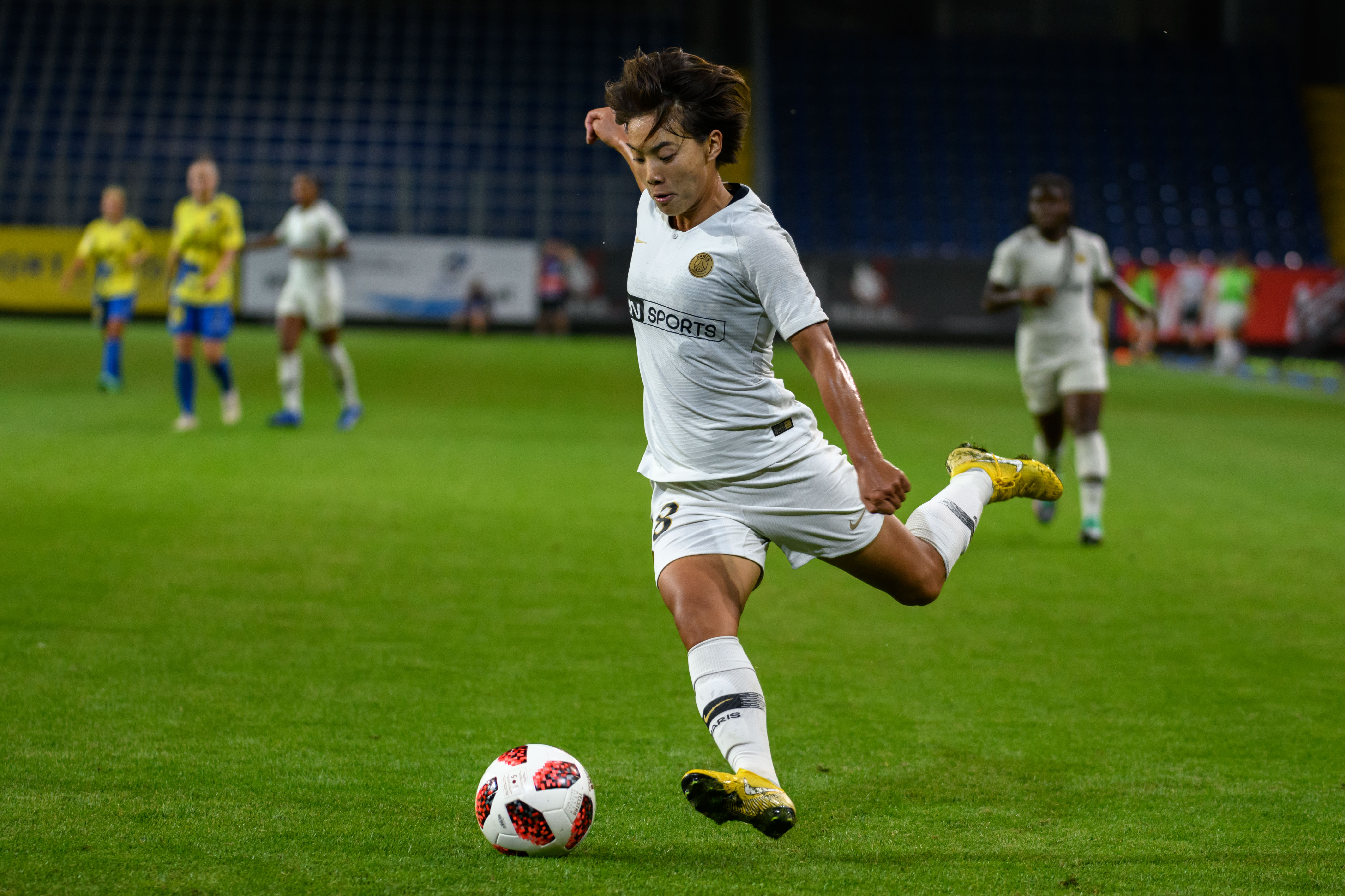 UEFA Women's Champions League 2019 Final Round of 32 SKN St.Poelten vs. Paris Saint Germain 2018/09/12. Picture shows Shuang Wang of PSG kicks the ball